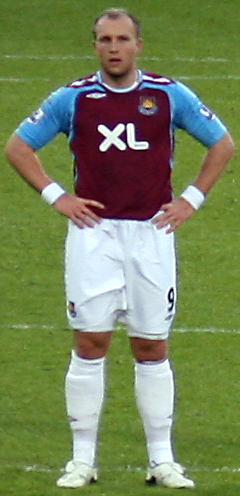 Dean Ashton. Image cropped from original at flickr.